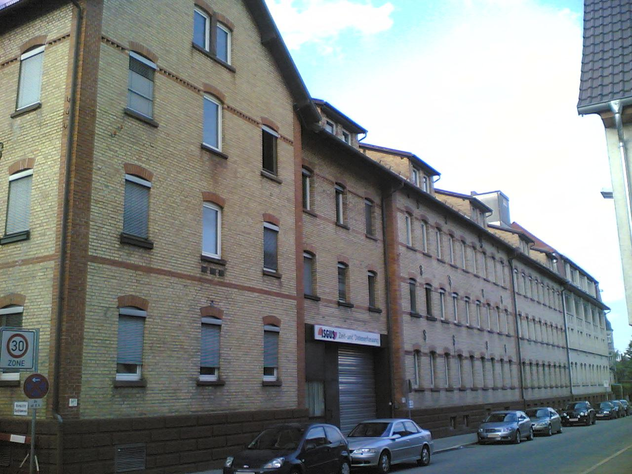 ISGUS GmbH in Villingen-Schwenningen, Germany